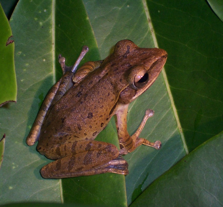 Polypedates leucomystax from Darmaga, Bogor, West Java, Indonesia